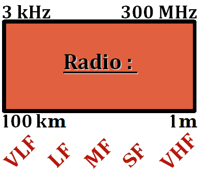 Radiofrequencies used by Radiostations in 20th century